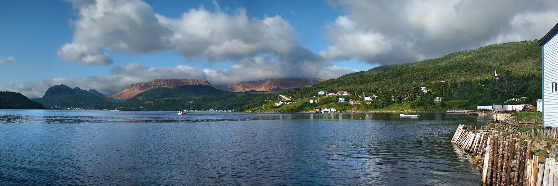 Woody Point, Western Newfoundland, Canada. Panorama of the Gros Morne National Park with the Tablelands, overlooking Bonne Bay.